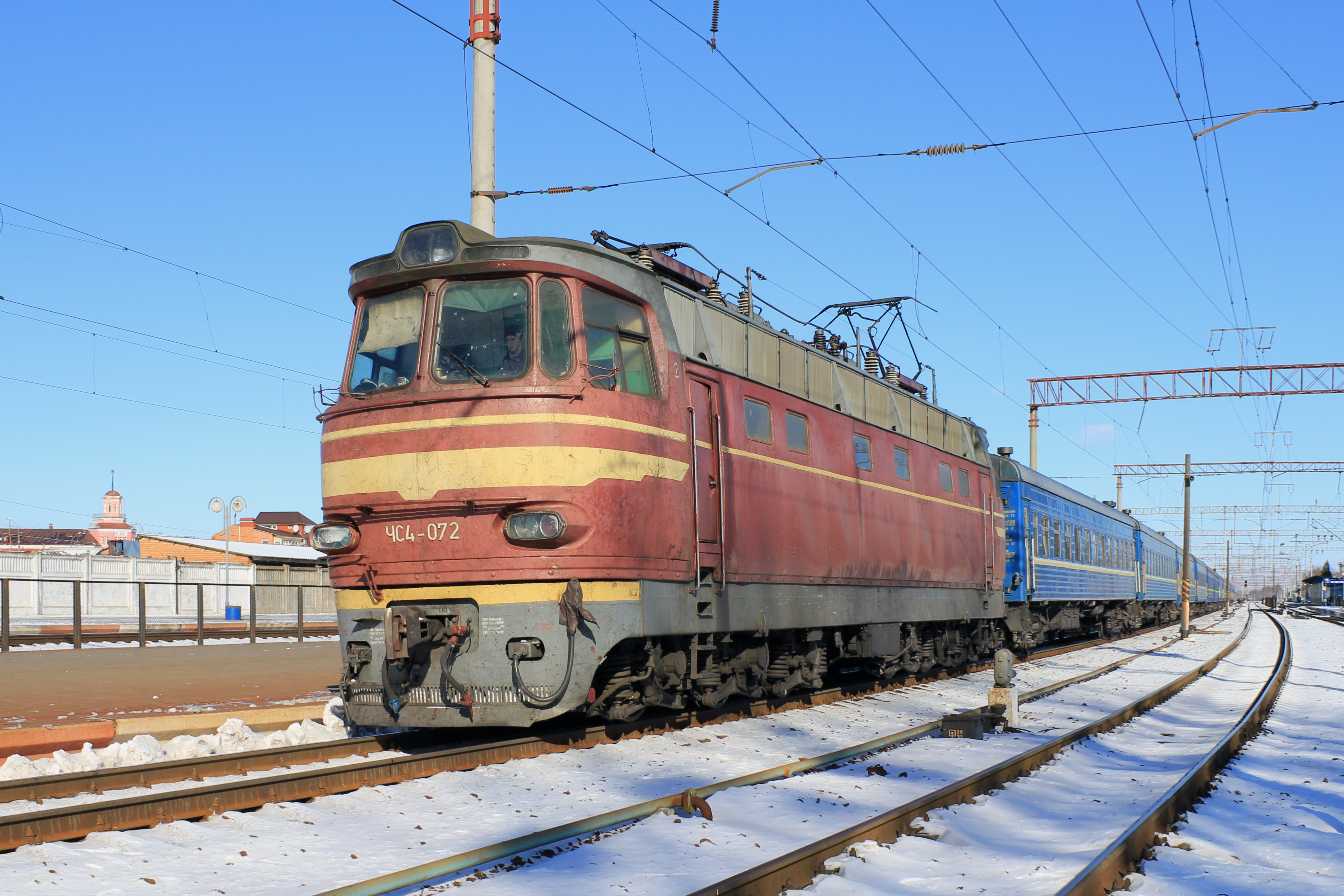 Electric locomotive Škoda ChS4-072 in Vinnitsa railway station. This locomotive has been made in February 1968. The Moscow — Odessa train. This locomotive (#072) not used since July 2011. Since March, 29 2012 is an exhibit of the Kiev museum of railway transport. The photo shows one of its last actions.